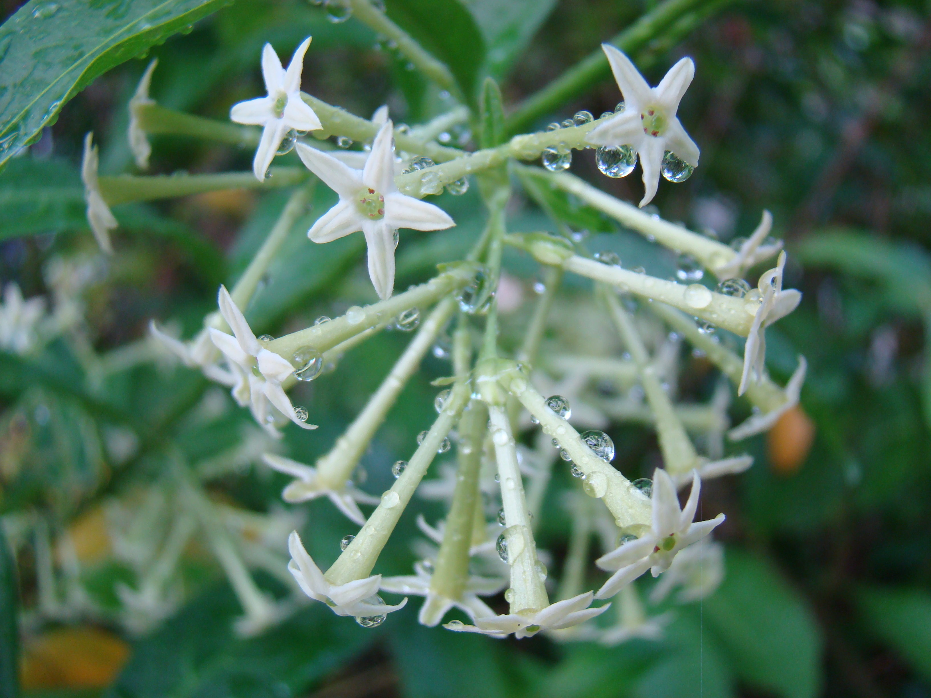 Close-up of just opened Night Blooming Jasmines (Cestrum nocturnum / Solanaceae), photographed right after rain at 11:39pm UTC (7:39pm local) in Rockledge, Florida.